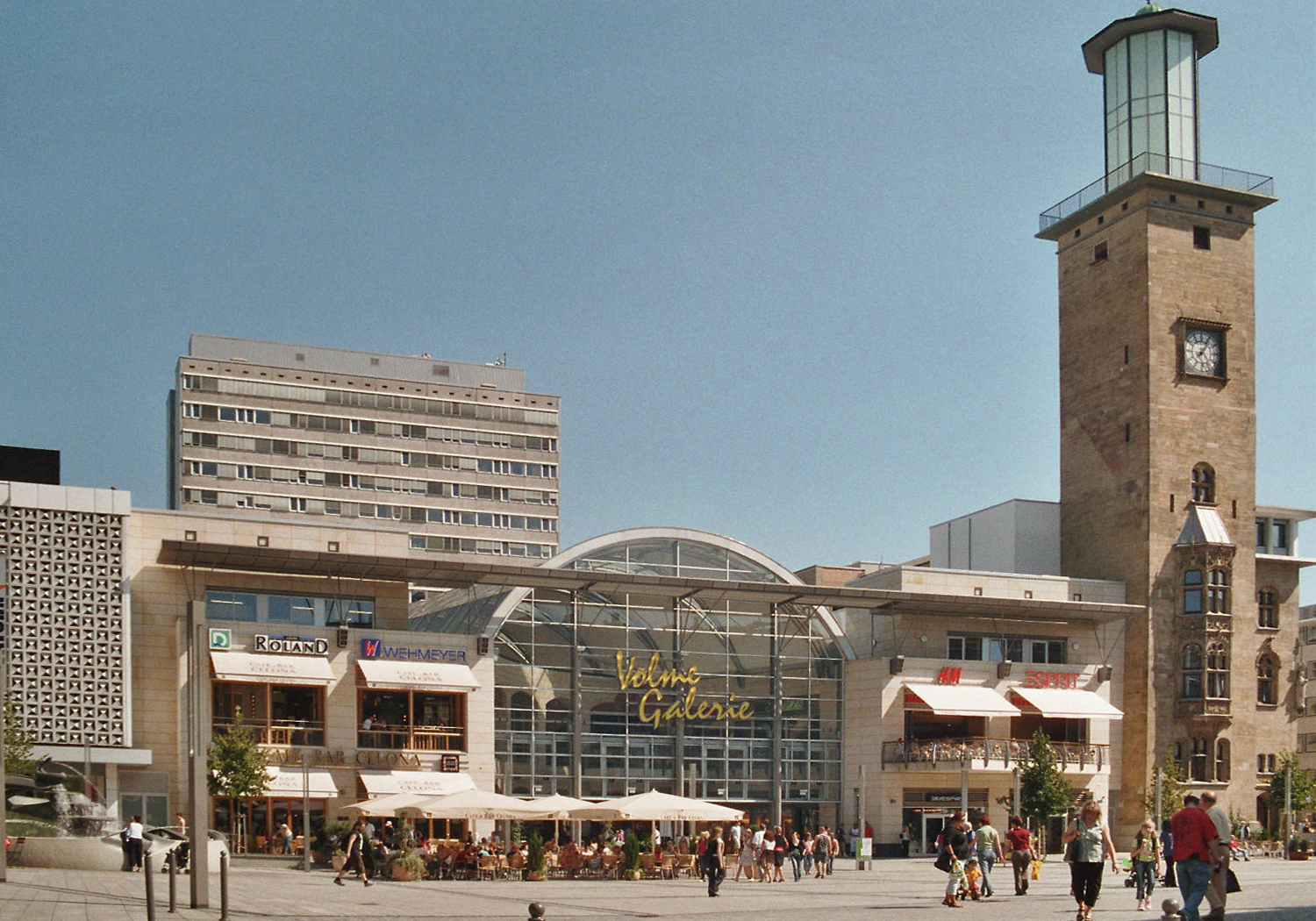 Hagen, Friedrich Ebert square with town hall tower and Volme shopping mall